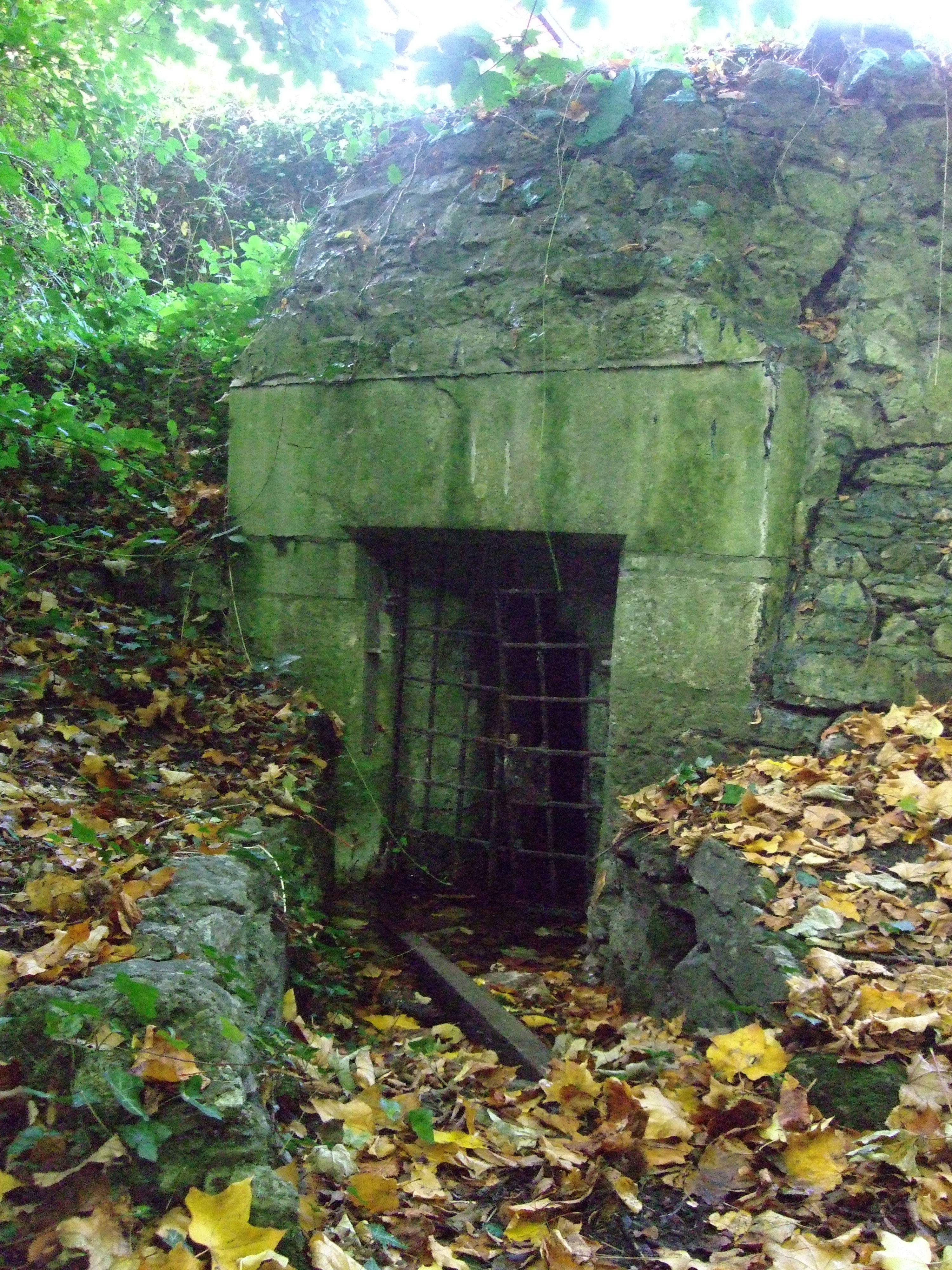 A photograph of the entrance to Conduit Head near Hill Lane in Southampton. Conduit Head is part of the now-defunct medieval water supply system, originally built by the Franciscan friars to bring in water from far outside the city walls. The stone building comprises a tiny gatehouse (shown) and several subterranean chambers.